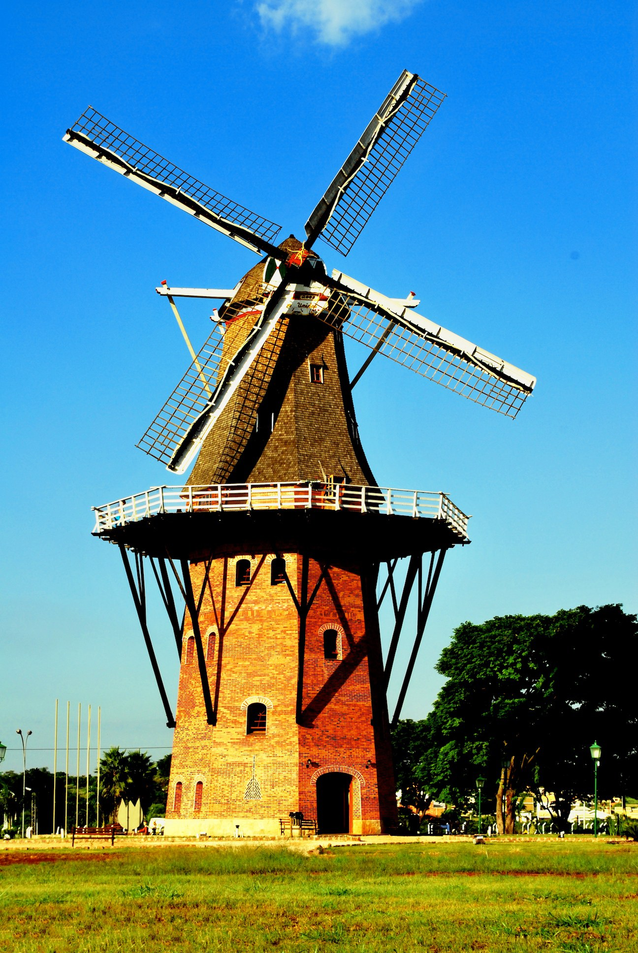 Moinho Povos Unidos "Peoples United", Holambra SP, Brazil The Municipality of Holambra inaugurates the largest mill in Latin America, in street Maurício de Nassau.